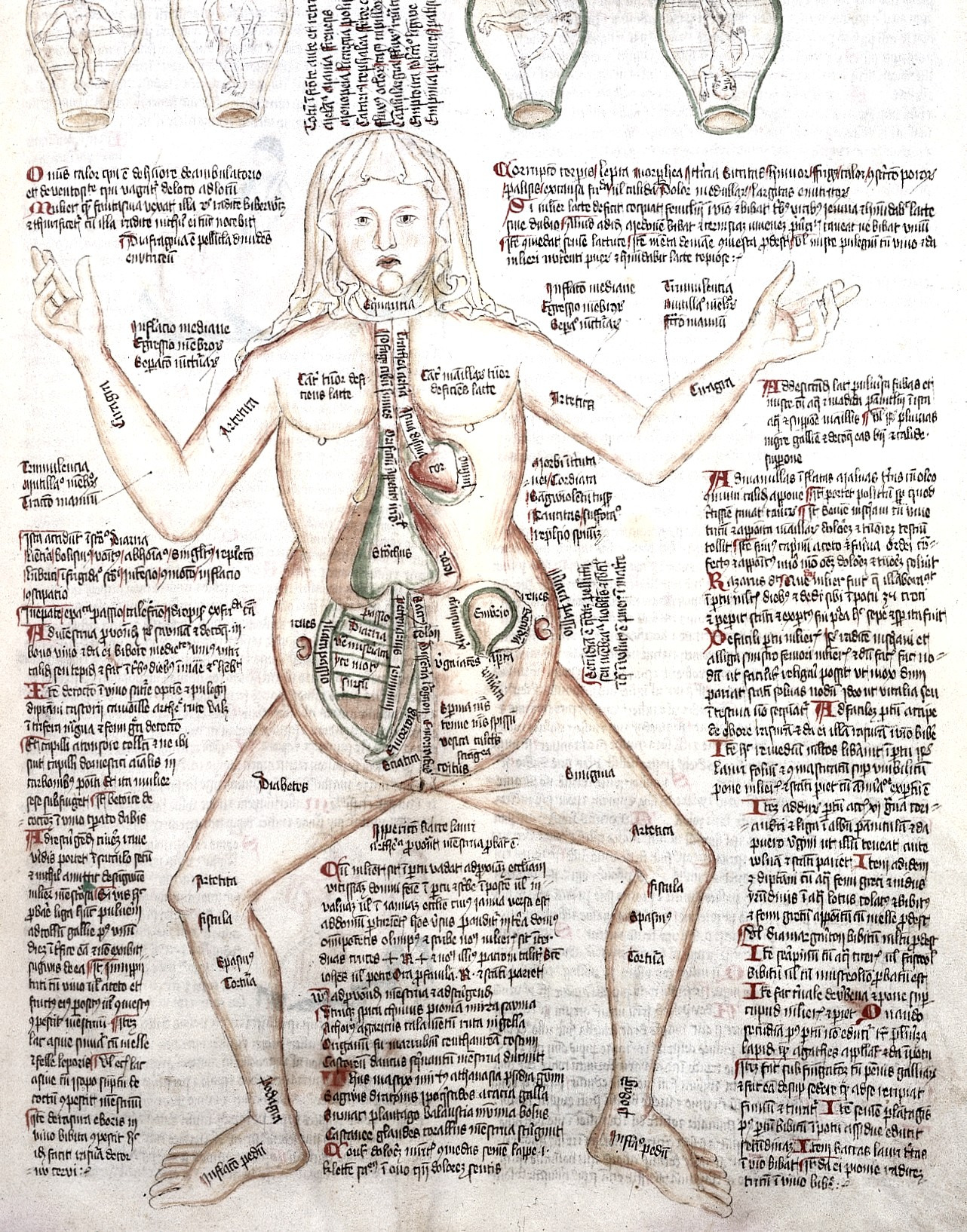 Four foetal positions in uterus - Full-figure anatomy of pregnant woman labelled with ailments Archives & Manuscripts Keywords: Medieval; Middle Ages